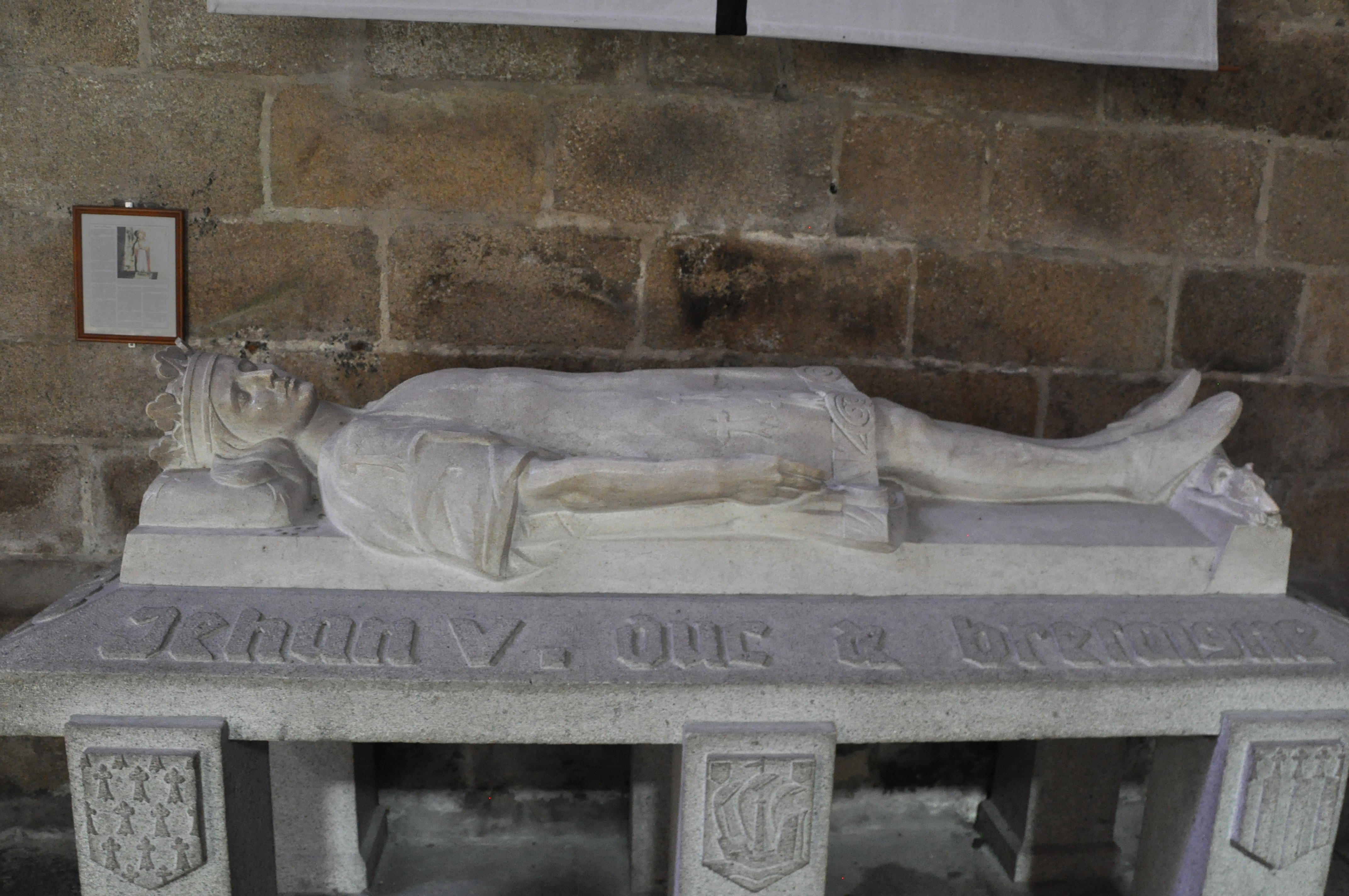 Recumbent of Jean V de Bretagne in Tréguier (Brittany, France)